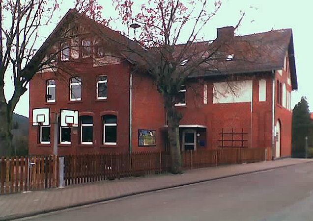 Old school, built in 1907, now named Otfried Preussler school, in Weidenhausen, now part of the city Gladenbach, Landkreis Marburg-Biedenkopf, State of Hesse, Germany